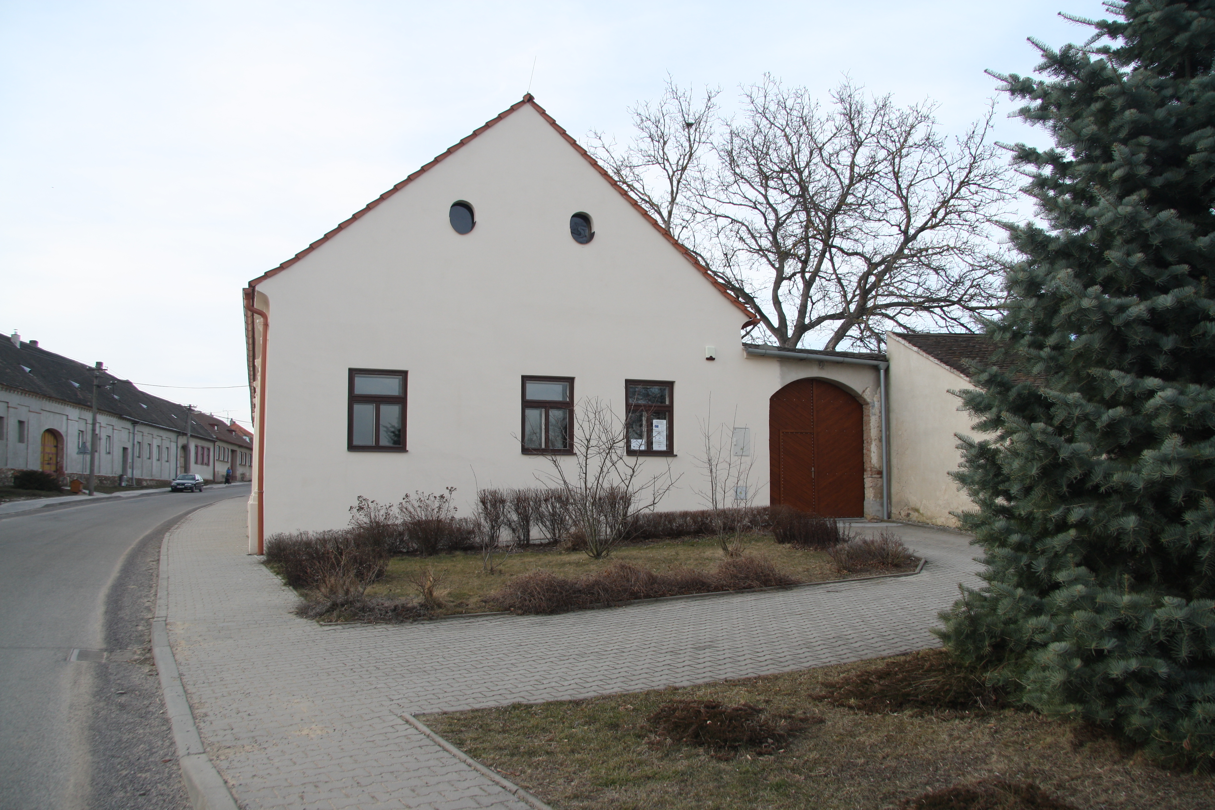 Overview of Memorial museum of Jan Bula in Lukov, Třebíč District.